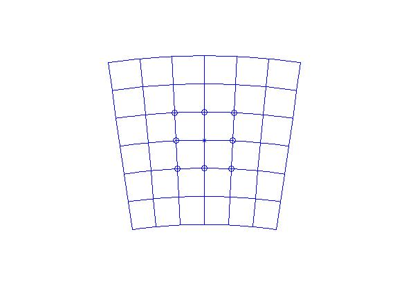 FFT cell